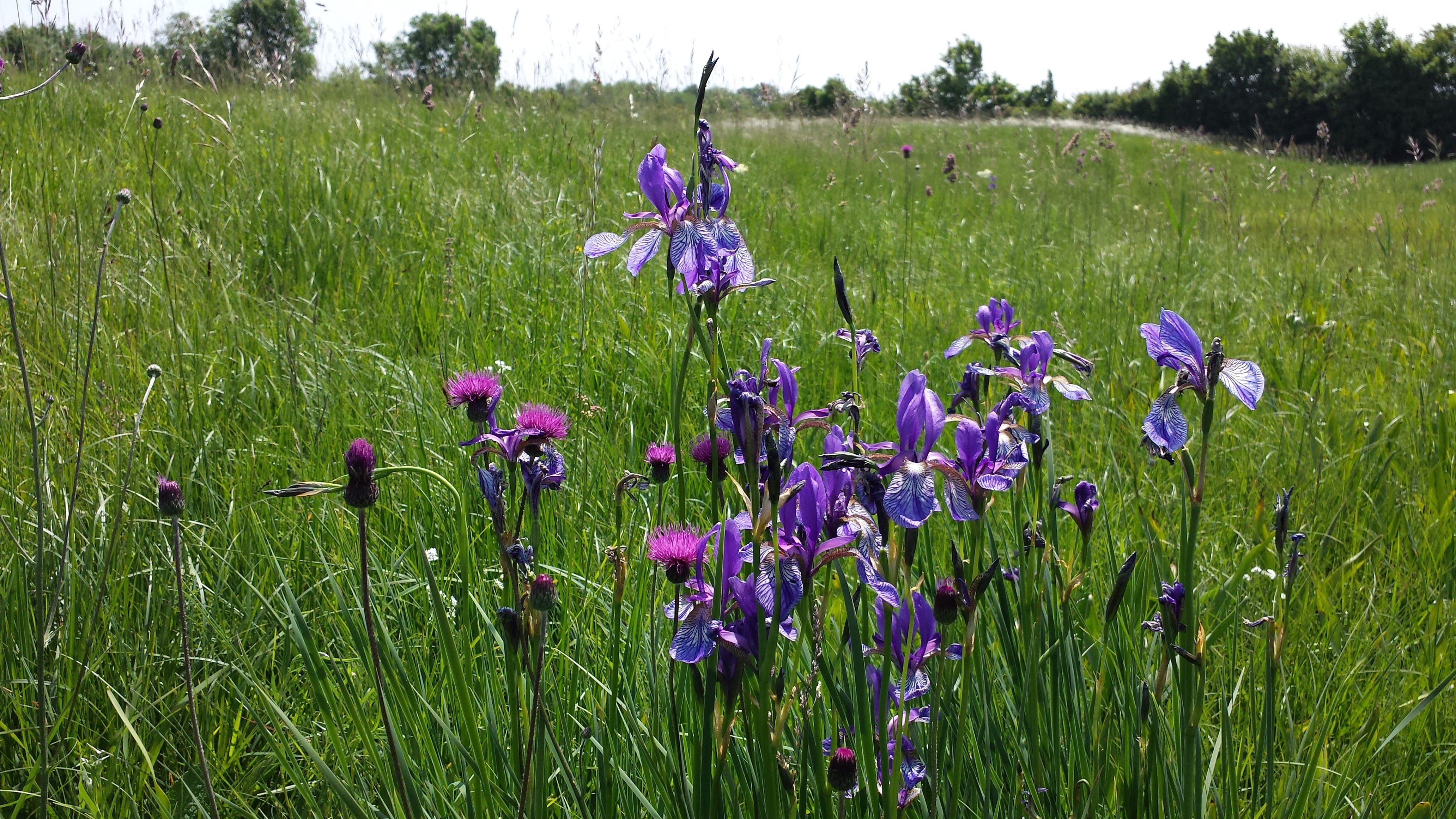 Taxon: Iris sibirica (sensu Fischer et al. EfÖLS 2008) Location: Pischelsdorfer Wiesen, Götzendorf an der Leitha, district Bruck an der Leitha, Lower Austria - ca. 175 m a.s.l. Habitat: wet meadow